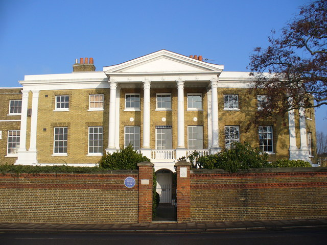 Garrick House, Hampton Originally enlarged by architect Adam for the celebrated Georgian actor, David Garrick. He died here in 1779. It is now an exclusive development of flats.